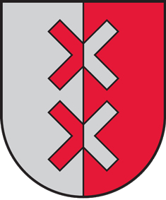 Coat of arms of Jaunpiebalga Municipality, Latvia. Lingála: Jaunpiebalgas novada ģerbonis „Skaldīts ar sudrabu un sarkanu: divi savrupi šķērskrusti pāļa virzienā – no viena uz otru“ Ģerboņu katalogs: Jaunpiebalgas novada ģerbonis Viens novads: divi pagasti, divi lauki, divas krāsas, divi šķērskrusti.